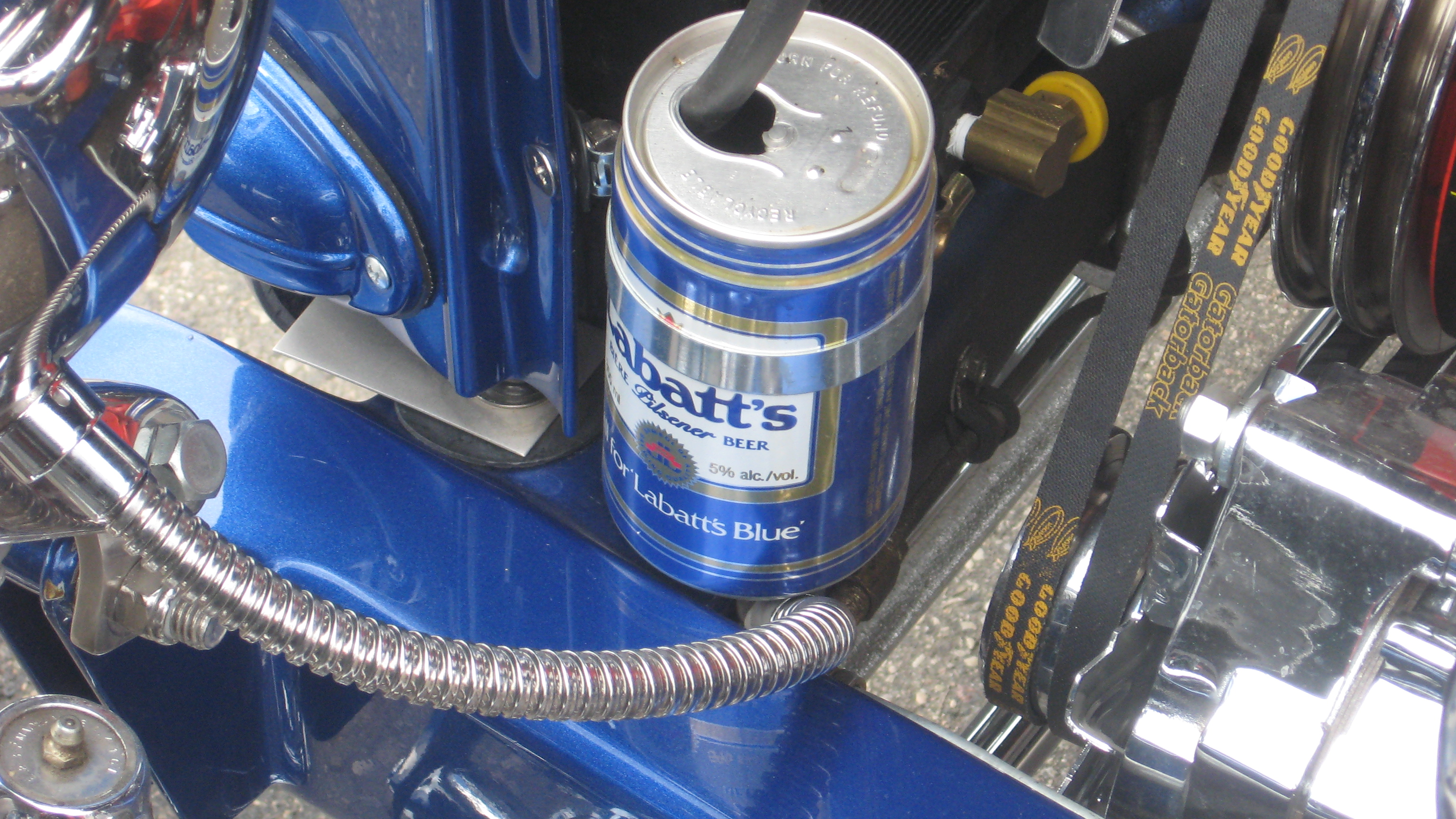 rodder's trick to meet requirements of race rules